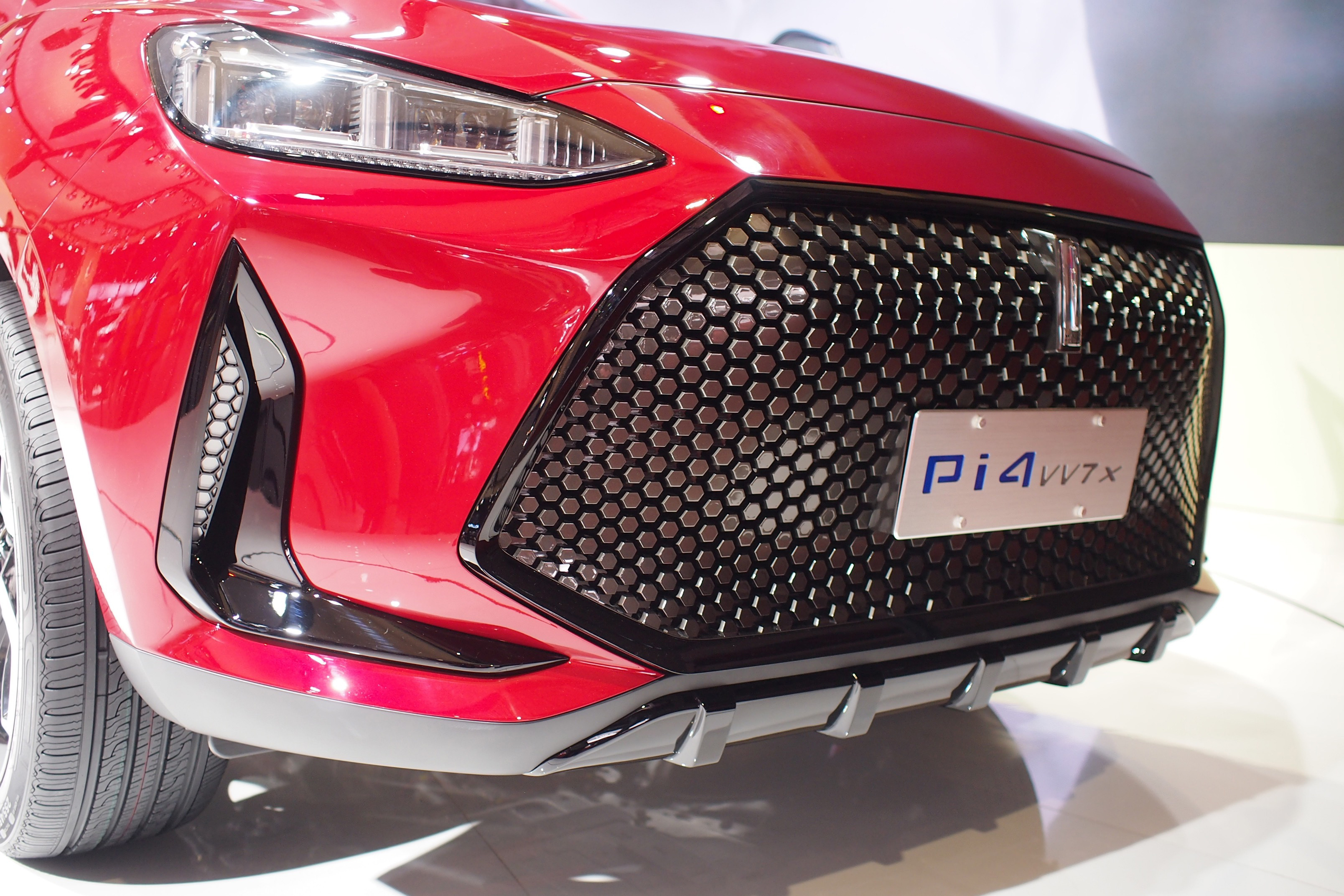 WEY Pi4 VV7 Concept